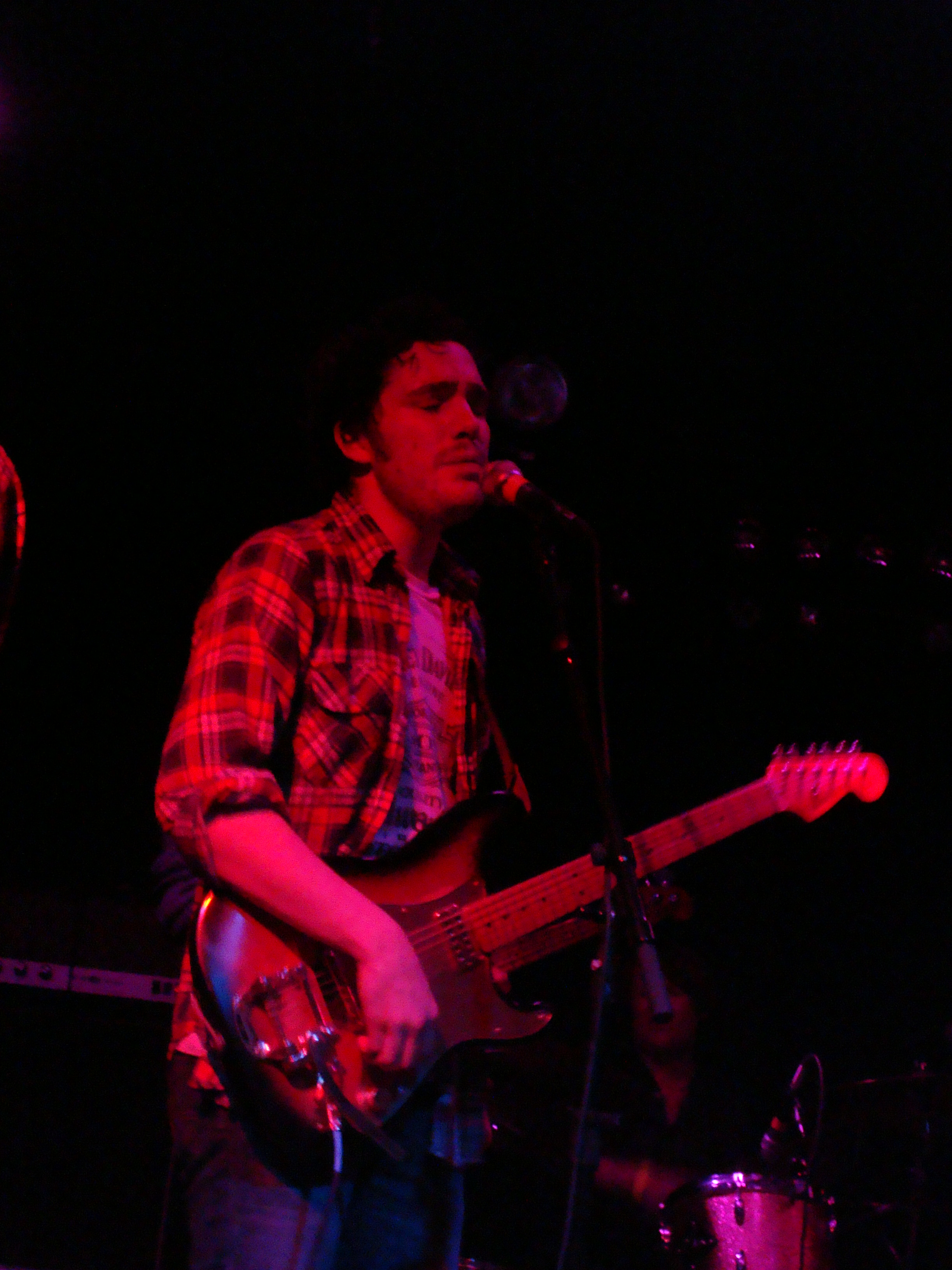 Robert Francis, The Echo, 2009.